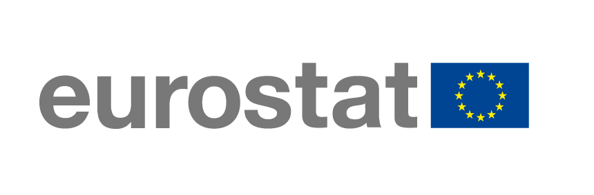 New Eurostat logo